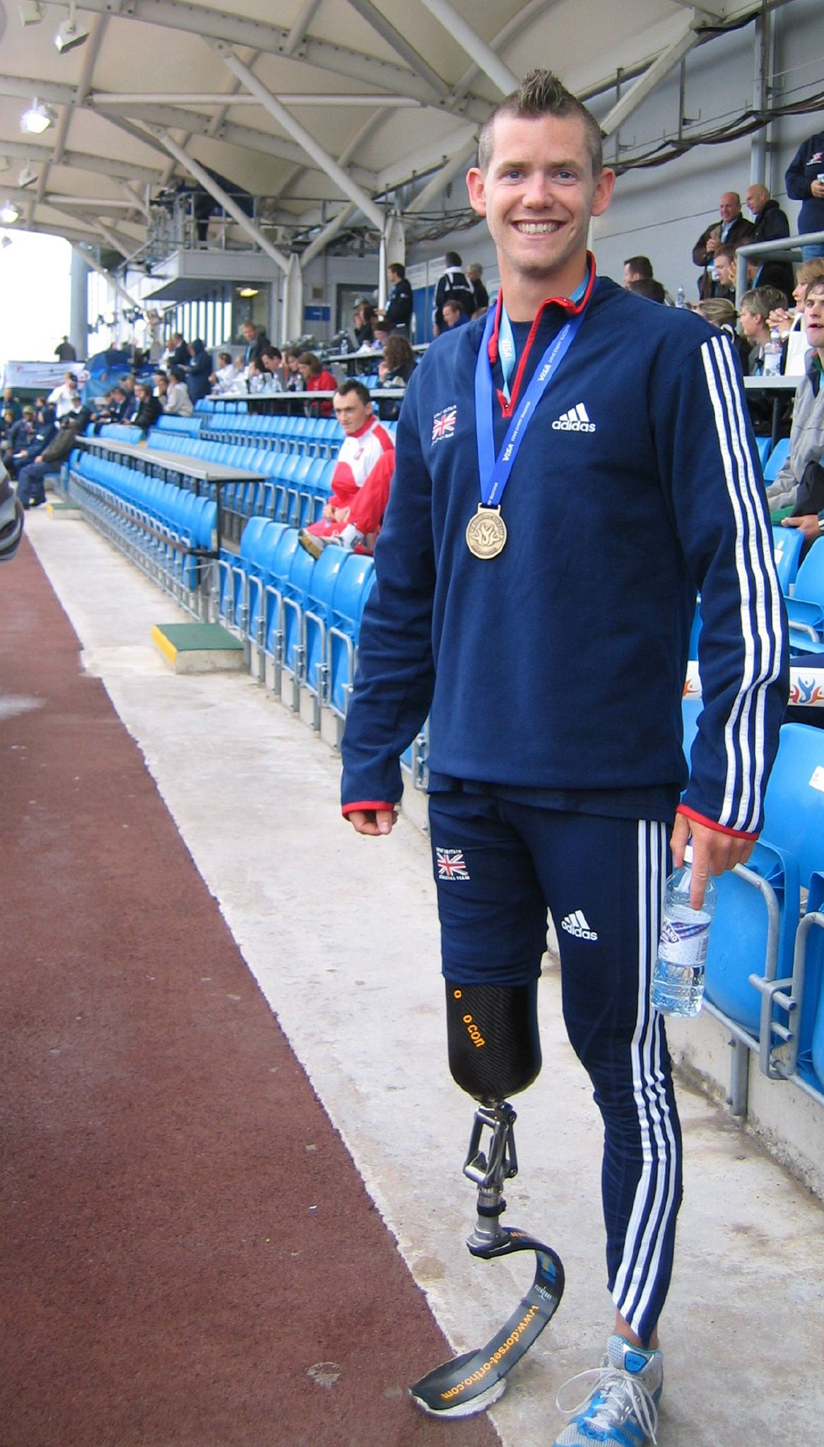 John McFall (born 25 April 1981), a Cardiff-based British Paralympic sprinter, after winning gold in the T42 (single amputation above the knee) 200 metres race at the 2007 Visa Paralympic World Cup in Manchester, England, in a competition record time of 26.84 seconds.